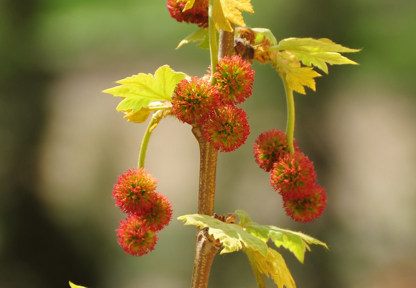 Platanus orientalis flowers and young leaves, İzmir, Turkey